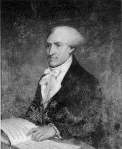 Composer Franz Ignaz Beck in old age